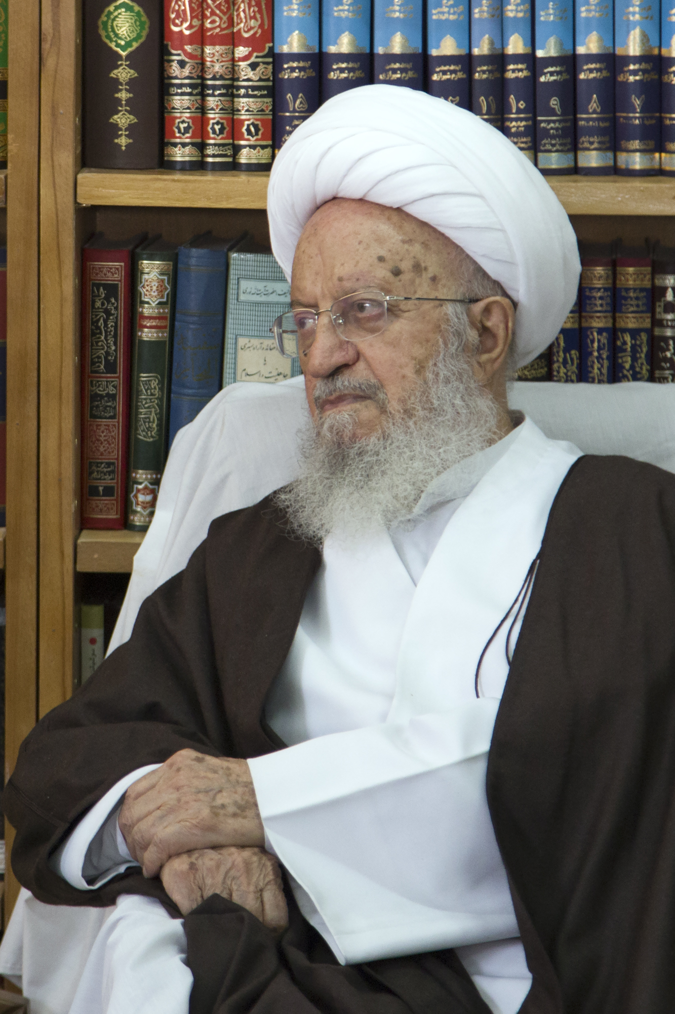 Grand Ayatollah Naser Makarem Shirazi is an Iranian Shia marja' and religious leader. He was born in the city of Shiraz, Iran. He finished his school in Shiraz. He started his formal Islamic studies at the age of 14 in the Agha Babakhan Shirazi seminary. After completing the introductory studies, he started studying jurisprudence (fiqh) and its principles (usool al-fiqh). He made rapid progress and finished studying the complete levels of introductory and both the levels of the intermediate Islamic studies in approximately four years. During this time, he also taught at the Islamic seminary in Shiraz.